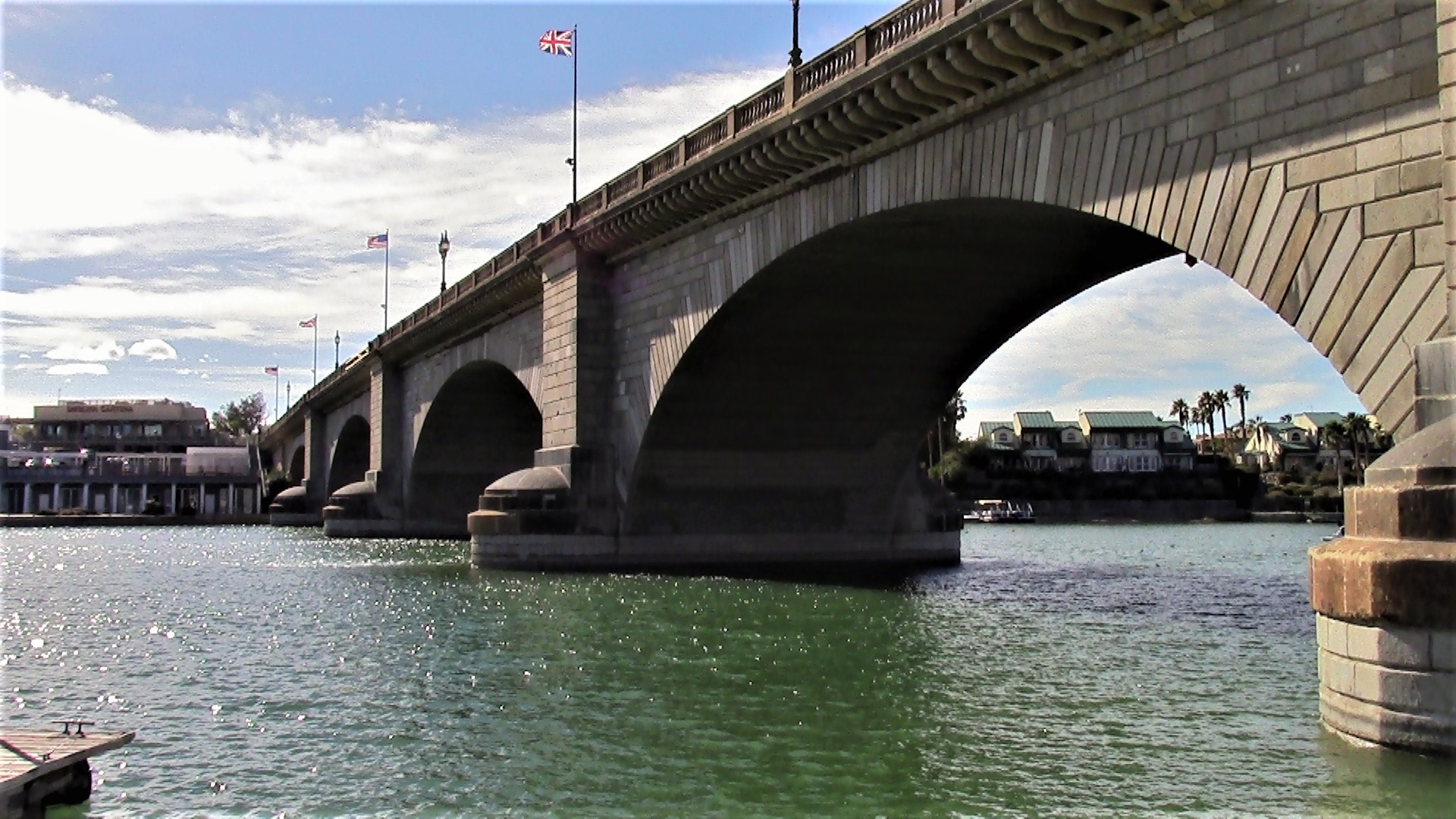 London Bridge, Lake Havasu City, Arizona USA